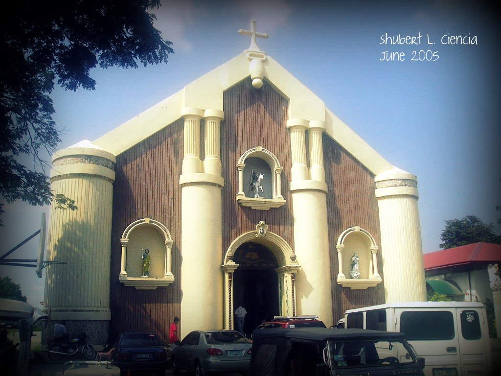 Orig. Flickr desc: The second to be built in Santiago in 1829, the church was repaired in 1883.